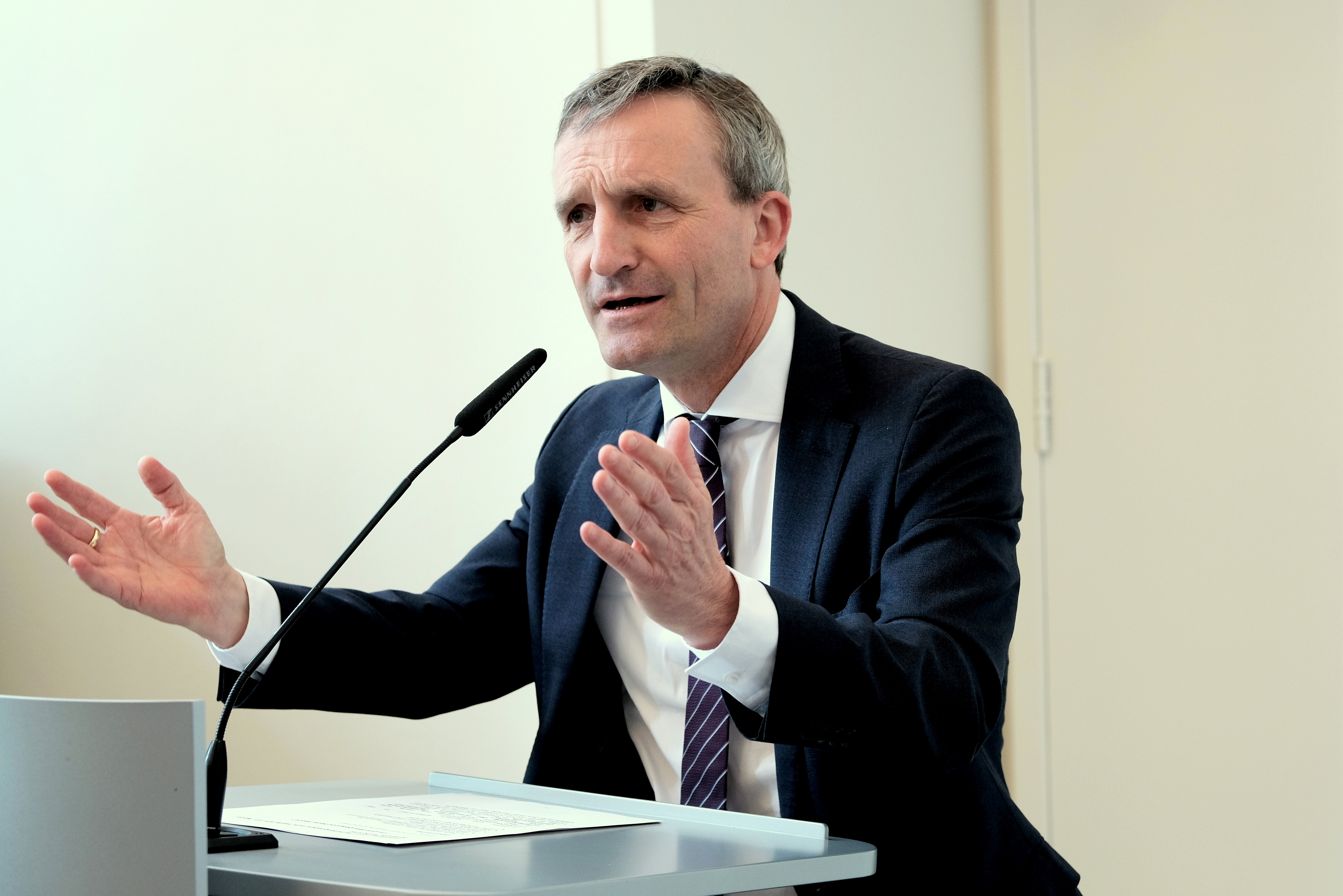 Düsseldorf 27.04.2018 OB Thomas Geisel Foto: Michael Gstettenbauer